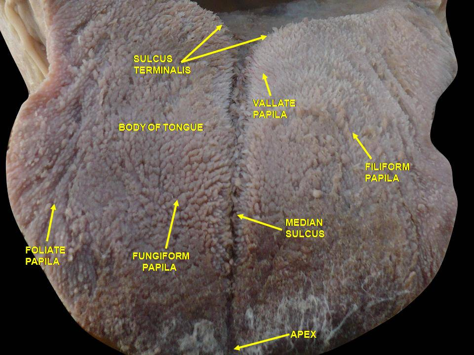 Anatomical Dissections